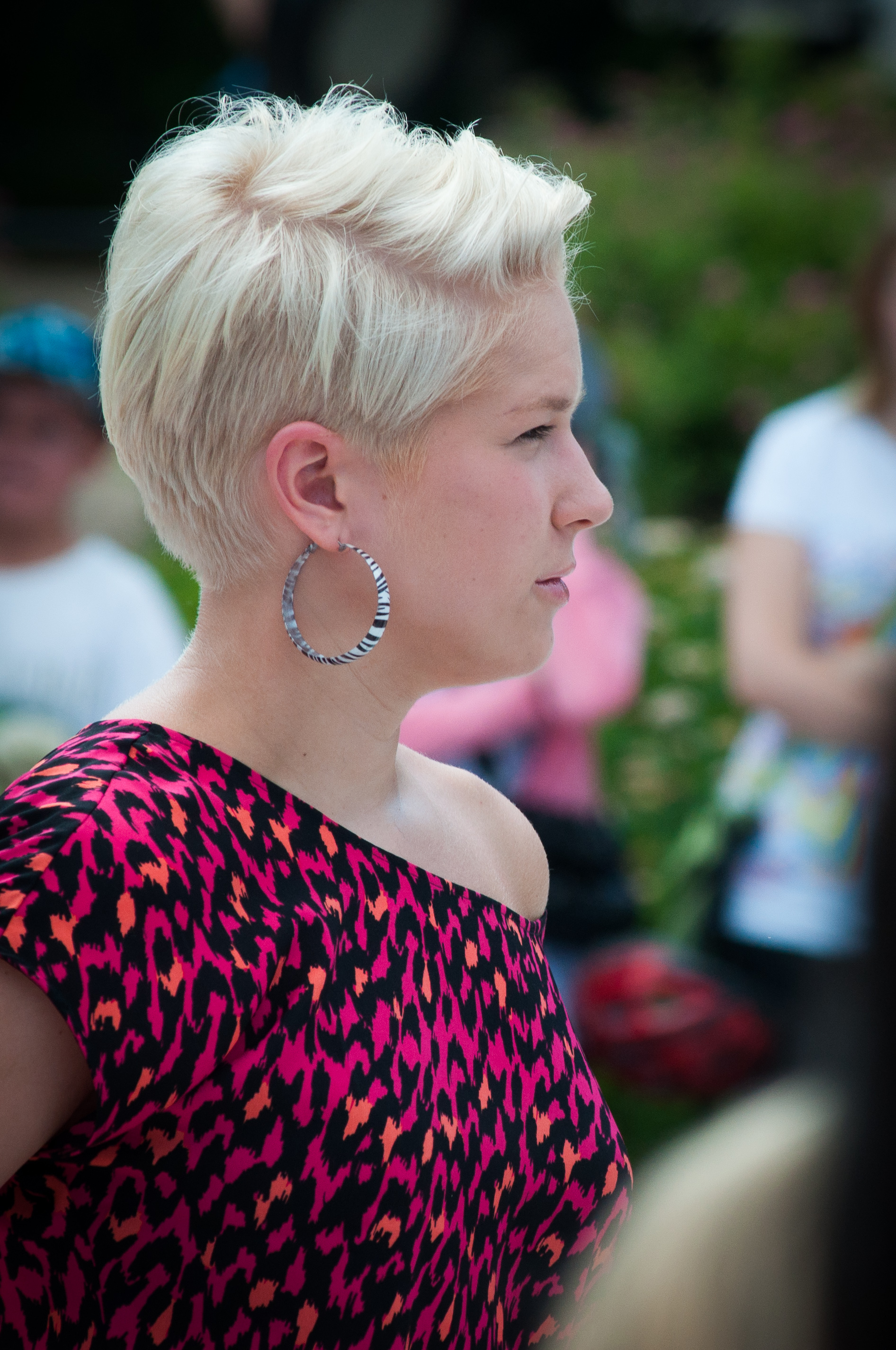 Finnish TV host Minttu Penttinen during the shooting of TV show Summeri in Lappeenranta, Finland.